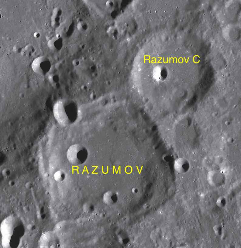 Part of the chart LAC-35 used for the presentation